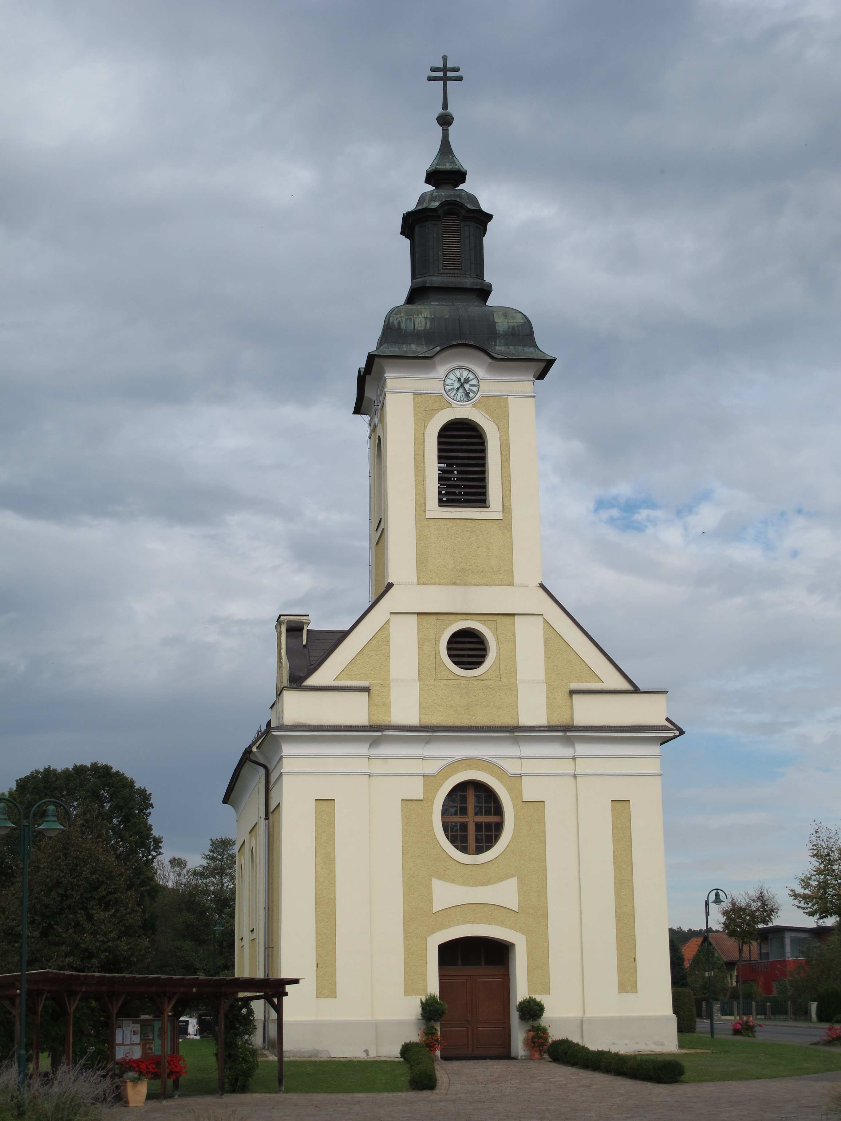 parish church Königsdorf, Burgenland